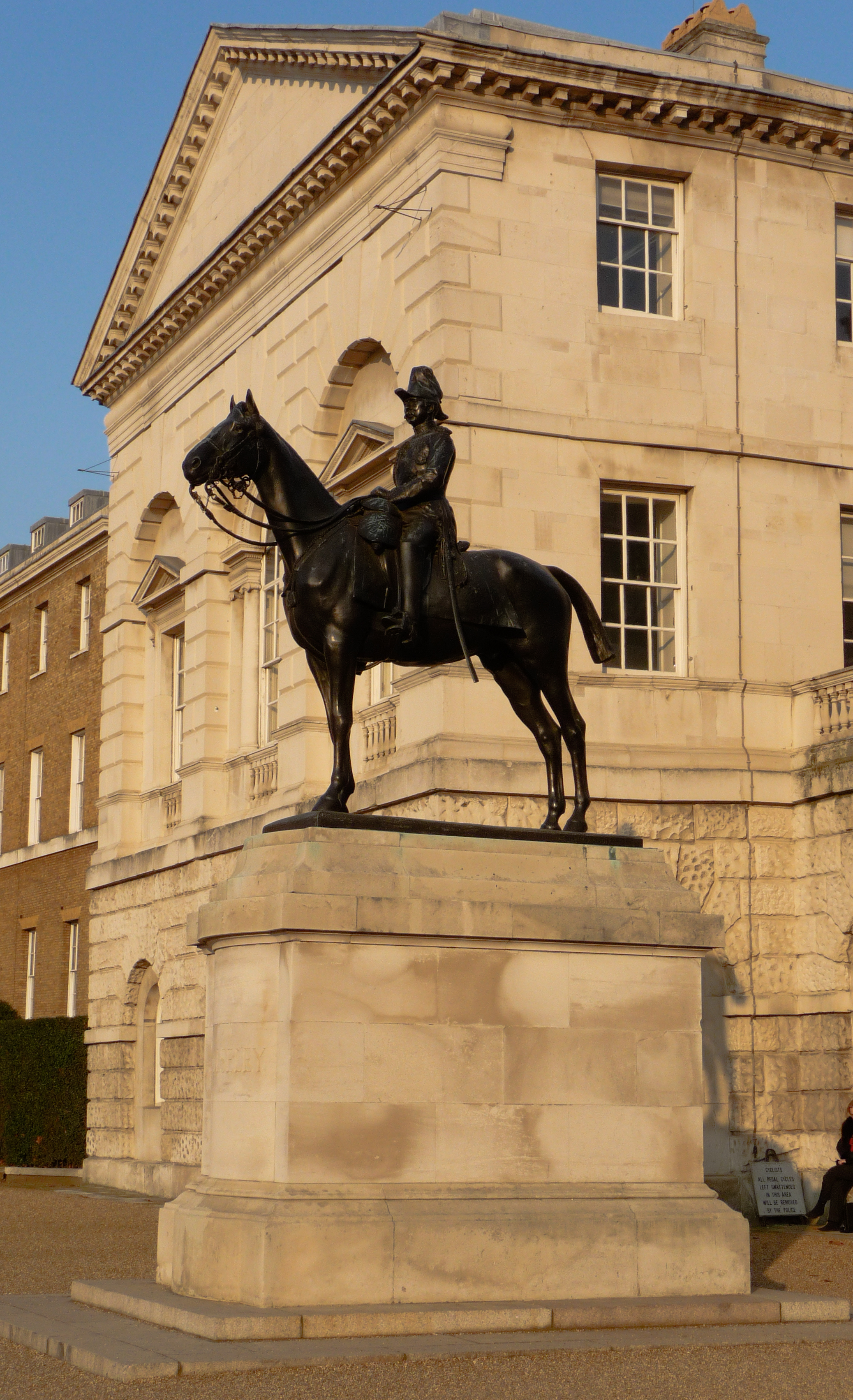 Equestrian statue of Field Marshall Lord Wolseley by Sir William Goscombe John, 1920